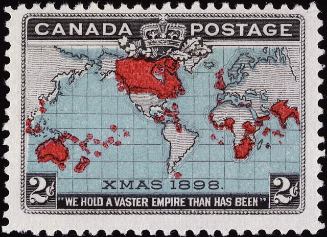 2 cents 1898 Canadian stamp with map of British empire ("We hold a vaster empire than has been").